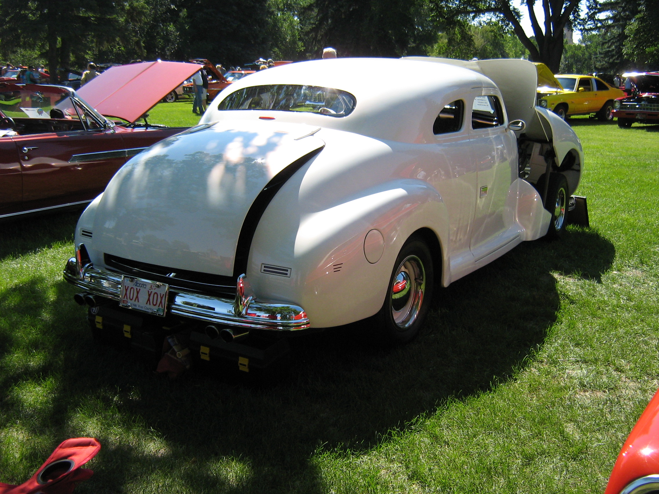 1941 Pontiac Silver Streak